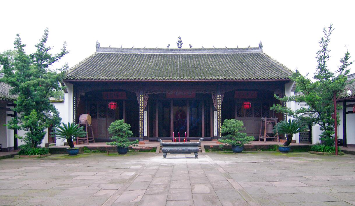 Three Su's memorial temple